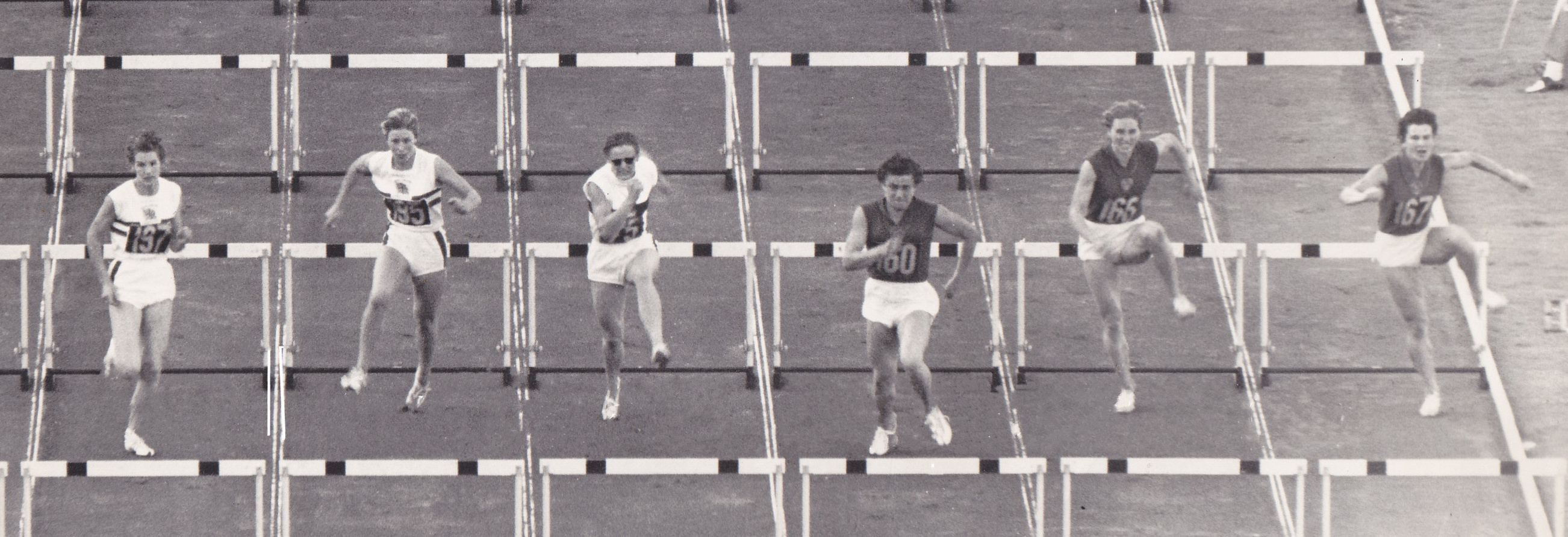 Women's 80 m hurdles final at the 1960 Olympics. Left-right: Carole Quinton, Mary Rand, Gisela Birkemeyer, Irina Press, Galina Bystrova/Rimma Koshelyova